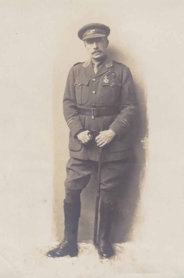 Ward at the western front, c 1916, wearing the Croix de Guerre